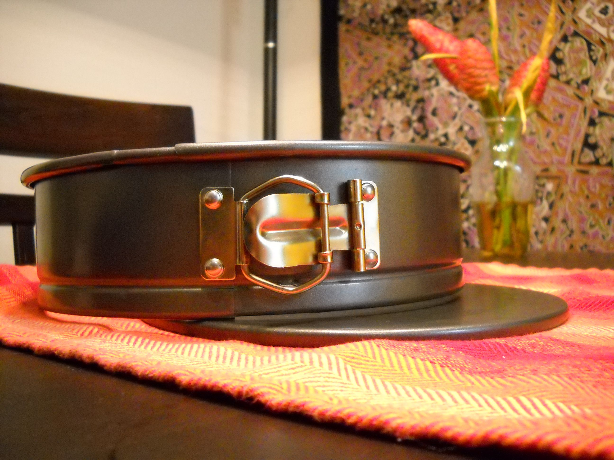 Disengaged base and wall of springform pan.